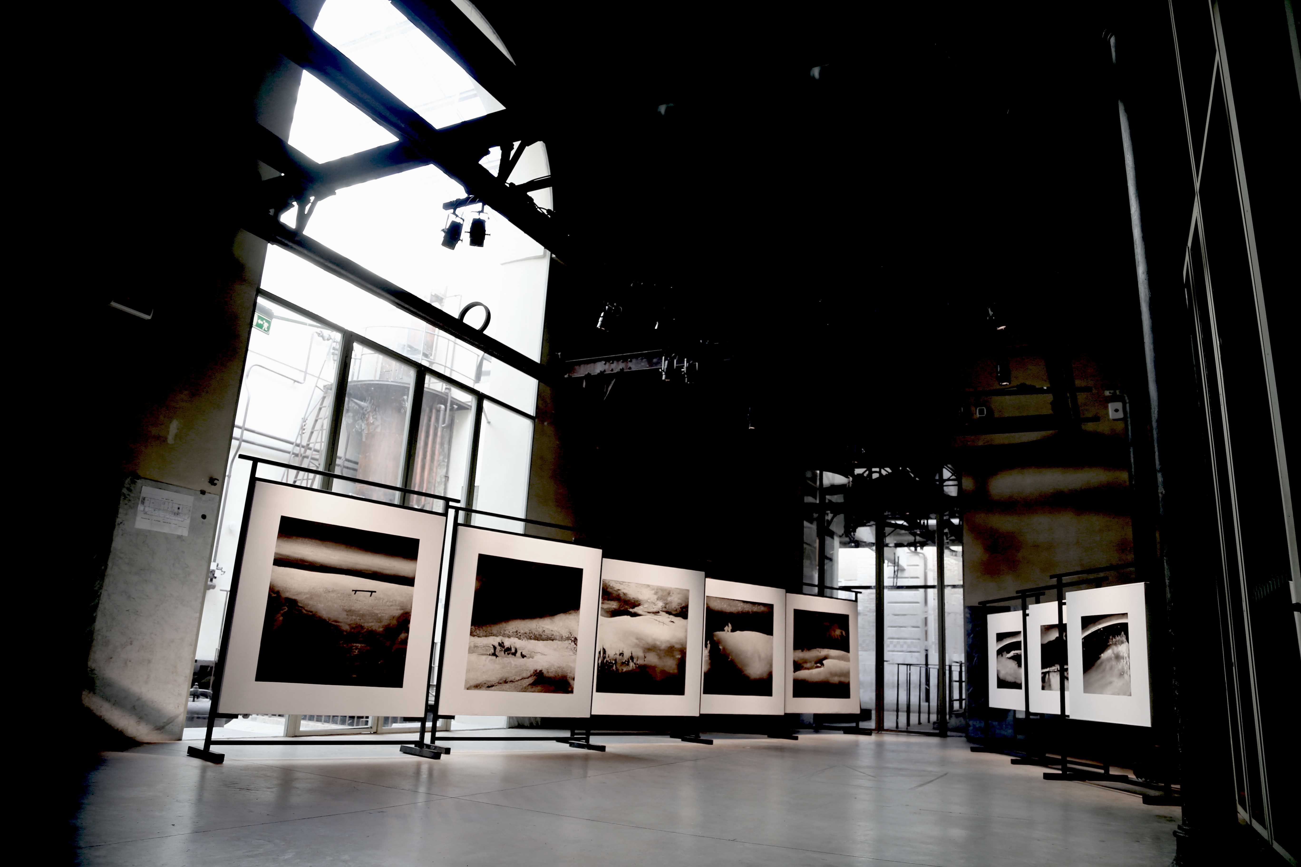 View at the Contemporary Art Museum Rome